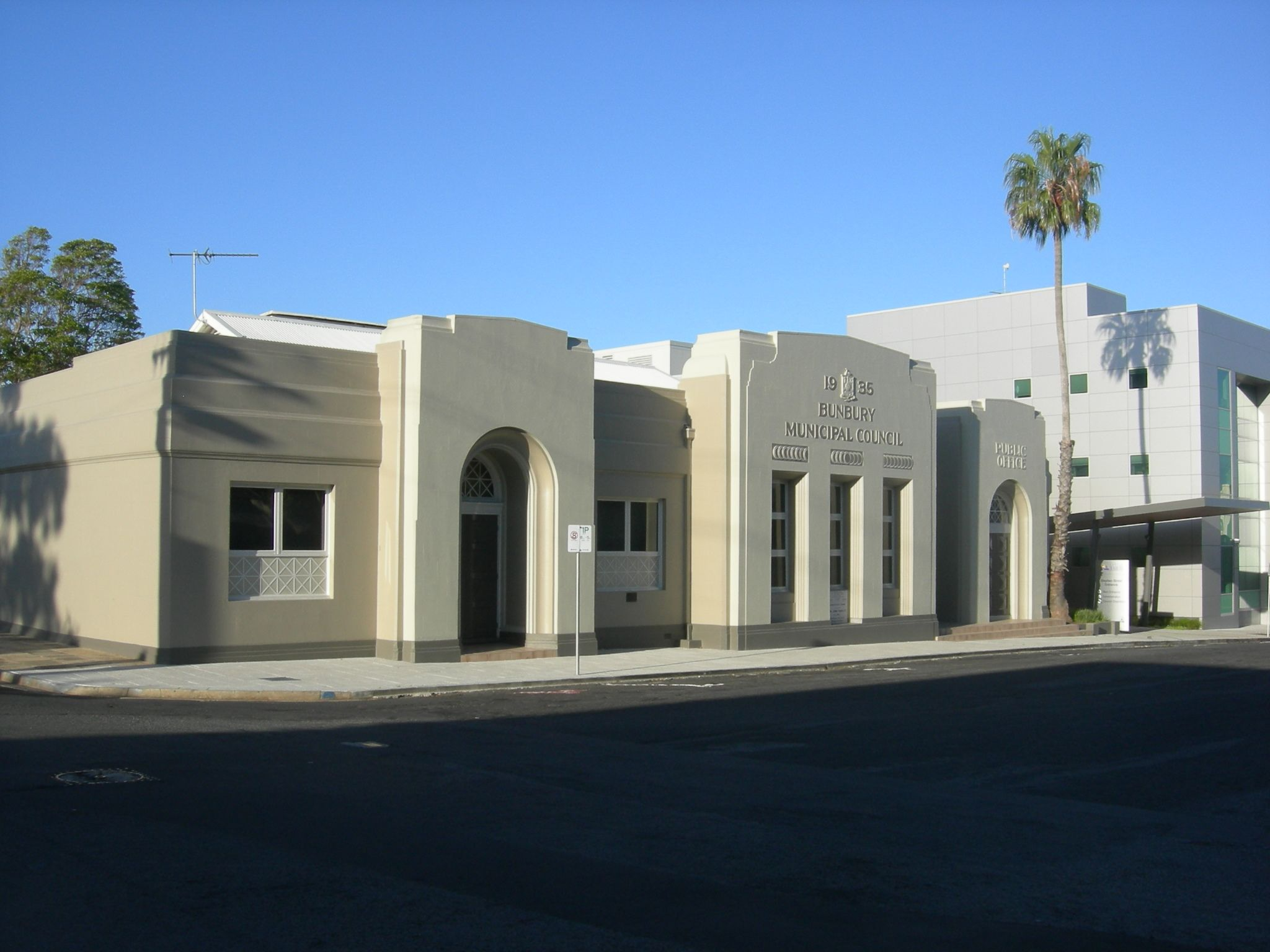 The City of Bunbury municipal building in Bunbury, Western Australia